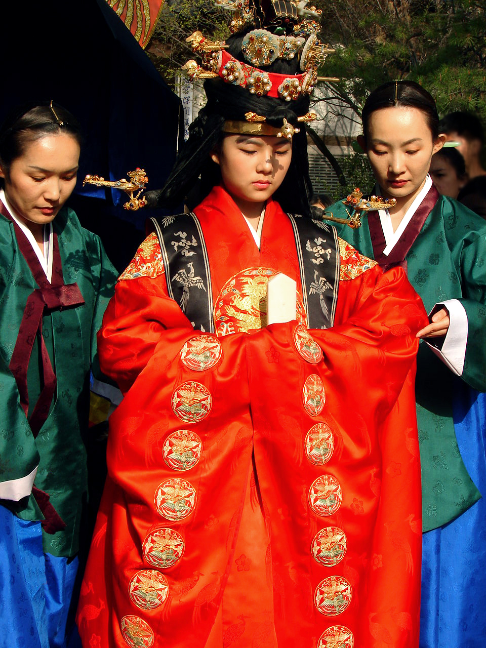 Reenactment of the royal wedding ceremony of King Gojong and Queen Min held at Unhyeongung Palace, the original site of the royal wedding ceremony on March 21, 1866, for emperor Gojong and his empress Myeongseong in Seoul South Korea